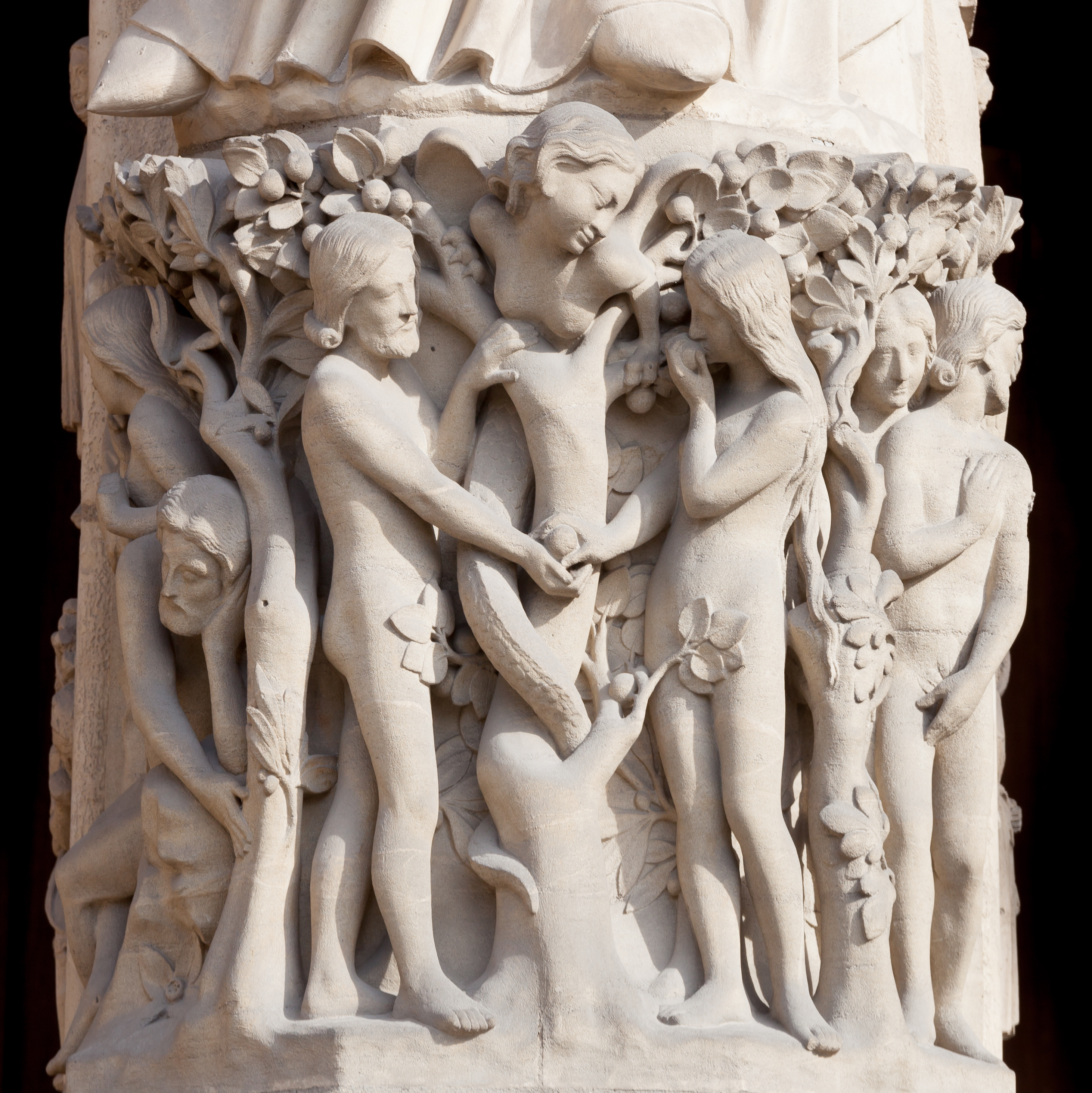 Reliefs, portal of the Virgin, Notre-Dame, Paris.